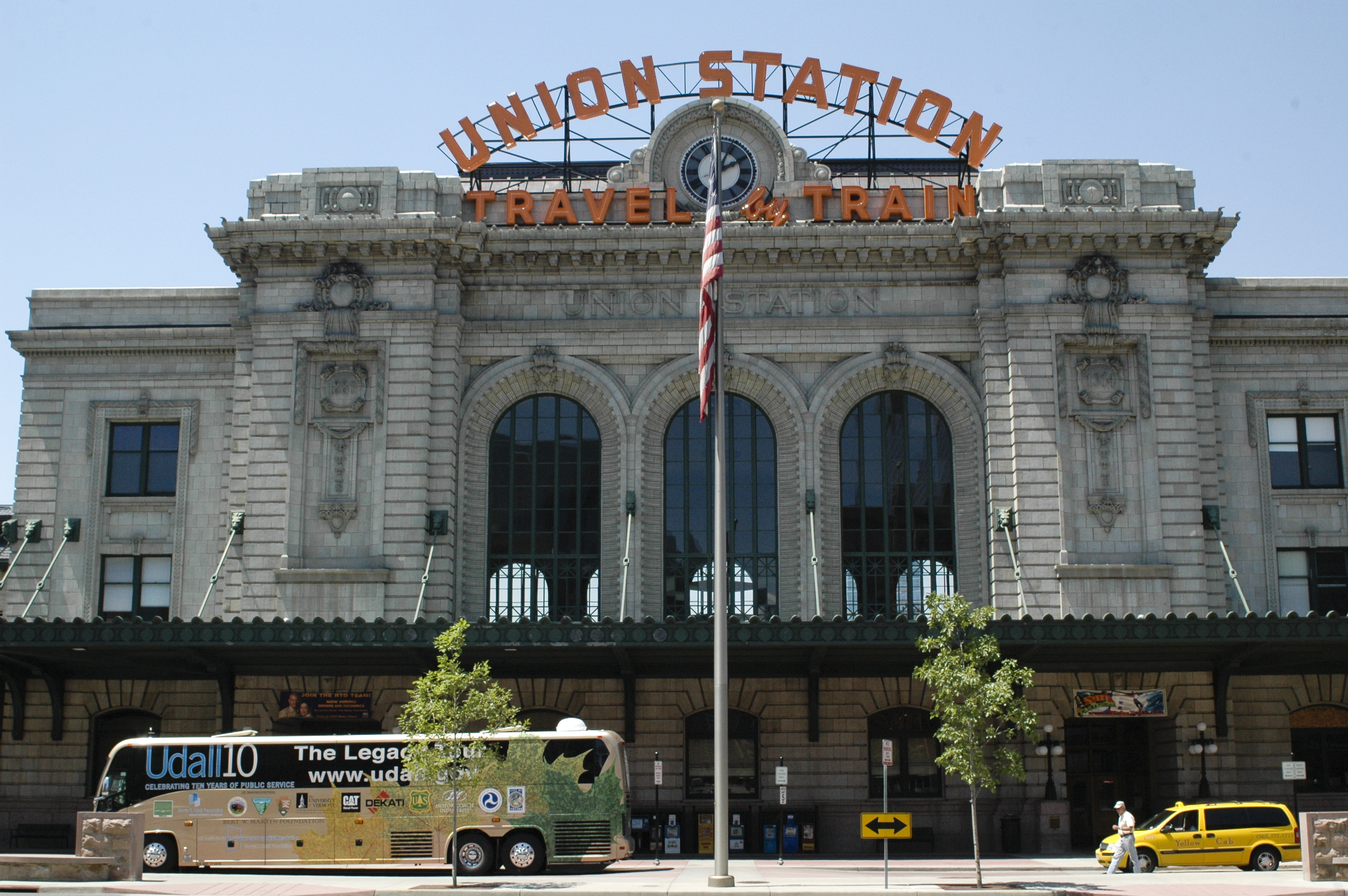 Denver, Colorado, Union Station